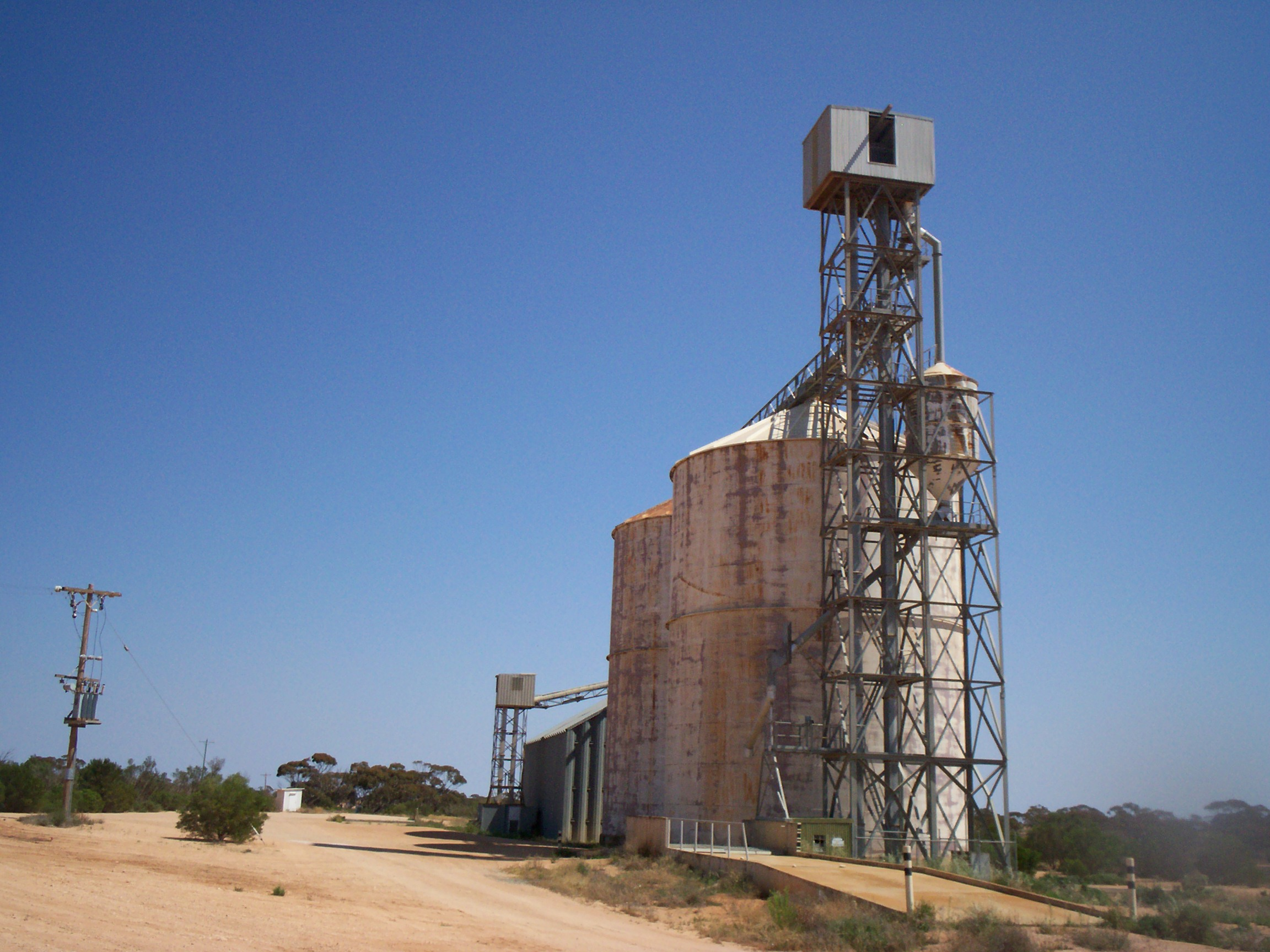 Storage silo, Merrinee, Victoria, Photograph taken by myself, September 30, 2007.